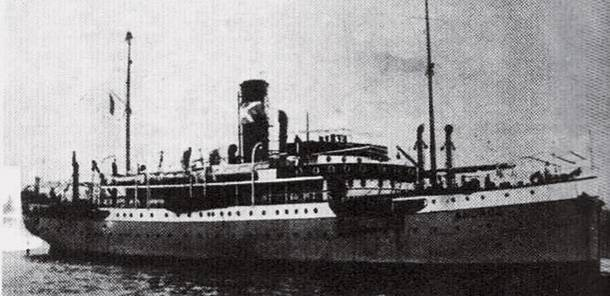 Greek hospital ship Andros, sunked by German aviation 25.4.1941